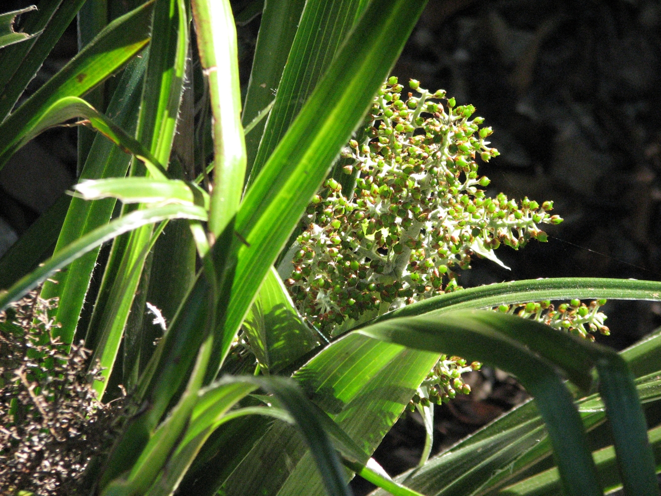 Astelia neocaledonica (cultivated labelled) Royal Botanic Gardens Melbourne, Australia